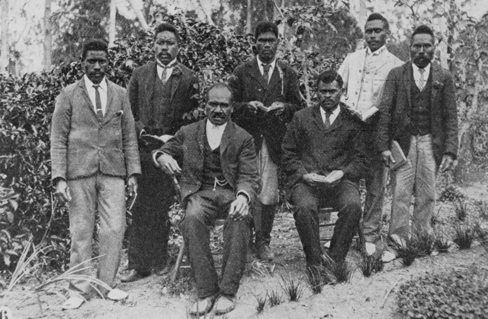 Group of South Sea Islanders, Nambour, 1906 Portrait of a group of South Sea Islander men wearing suits, vests, shoes and ties. The men, with small bibles? in their hands, have been photographed in a garden.